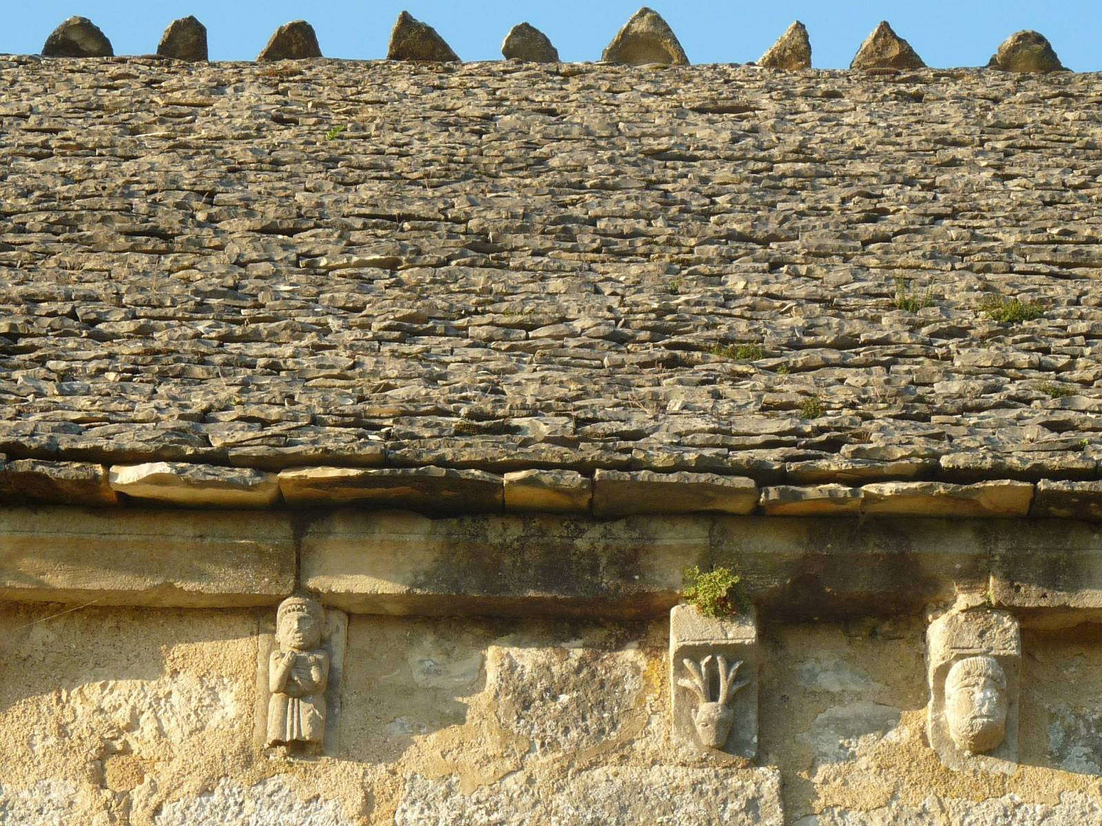 church of La Rochette, Charente, SW France; stone tiled roof